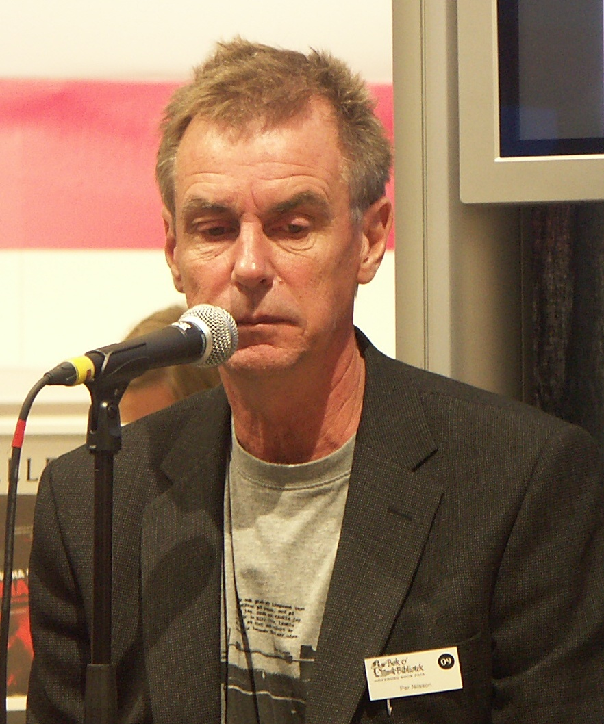 Swedish author Per Nilsson.